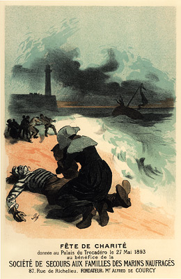 Cheret, Jules - Fete de Charite (pl 161) - Fête de charité donnée au Palais du Trocadéro le 27 Mai 1893 au bénéice de la Société de Secours aux familles des marins nauvragés - 87 rue de Richelieu - Fondateur Mr Alfred de Courcy.